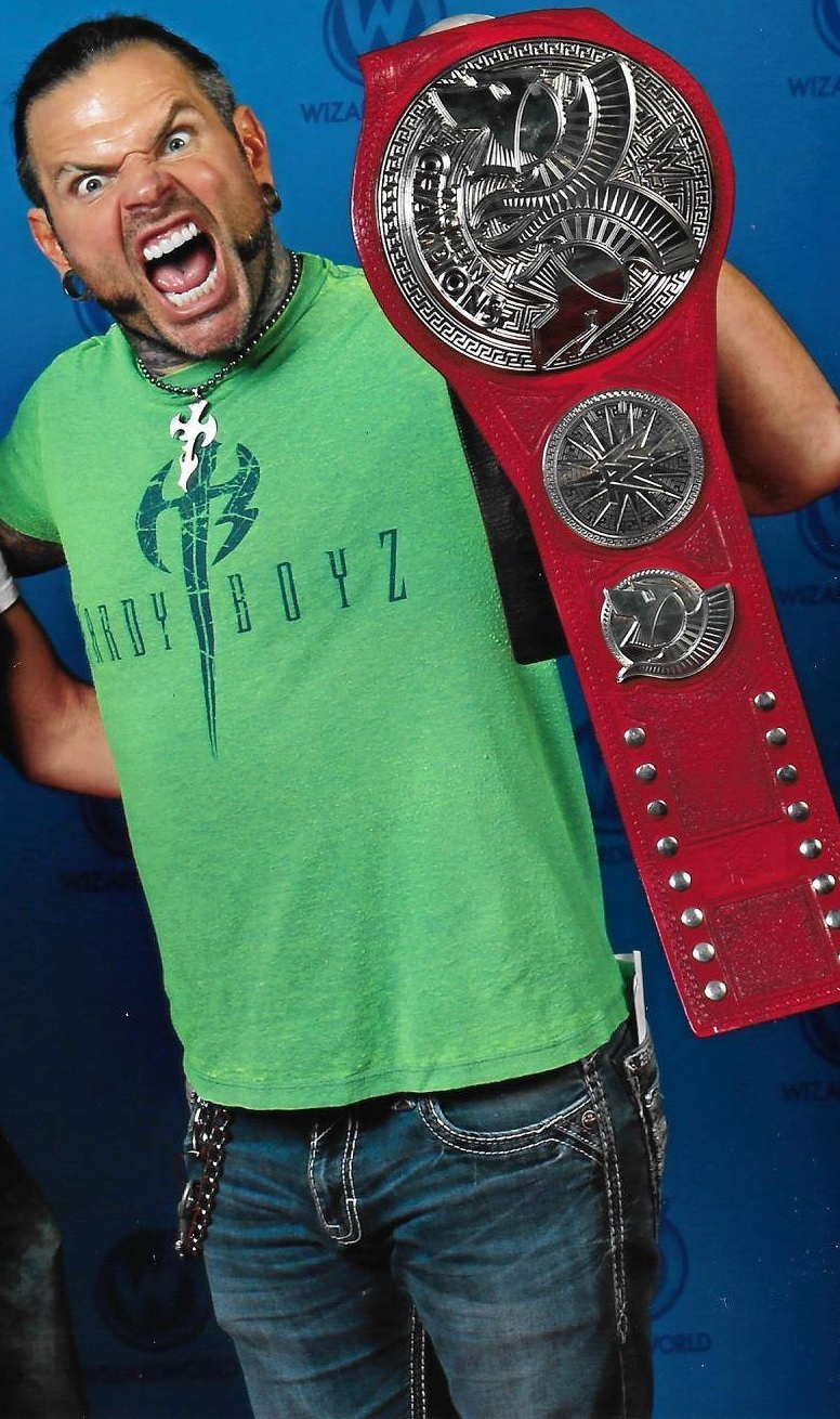 Jeff Hardy at Wizard World Comic Con on June 4, 2017 as WWE Tag Team Champion